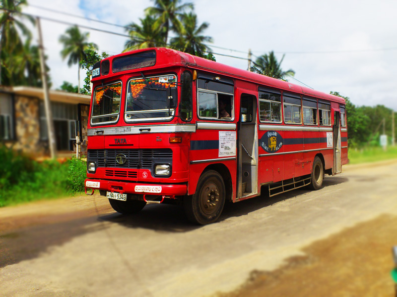 A bus operated by Sri Lanka Transport Board, Near Kurunegala, Sri Lanka